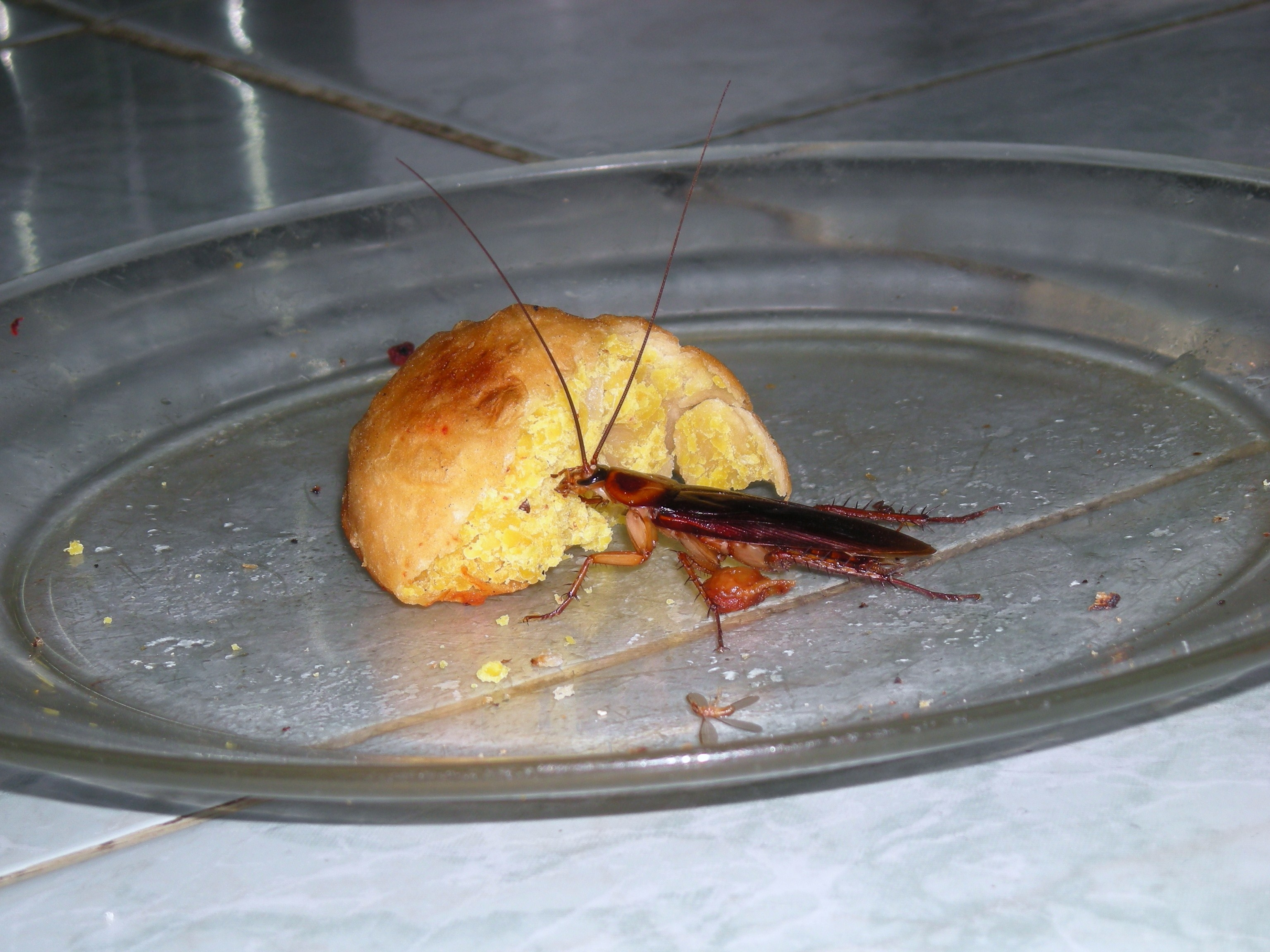 Periplaneta americana, "Dinner is served"